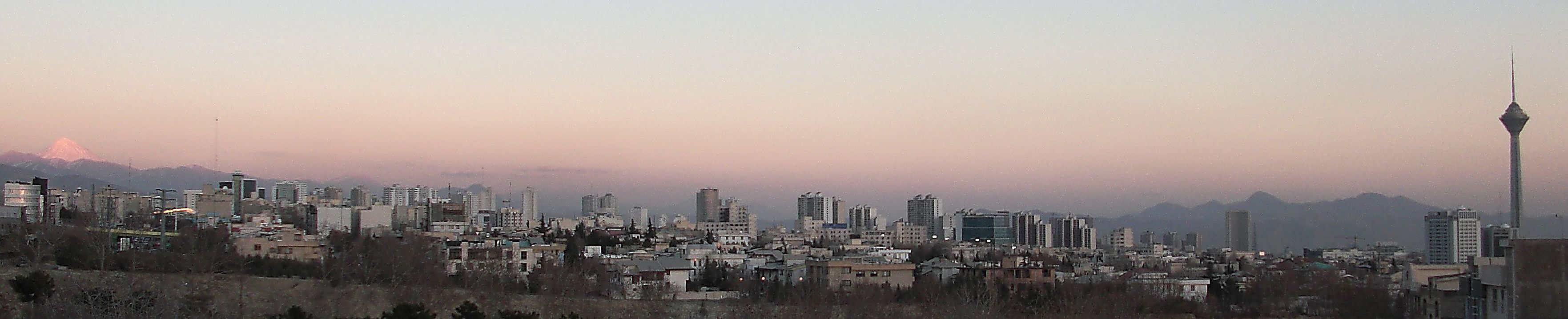 This picture taken from top of Islamic Azad University Central Tehran branch.